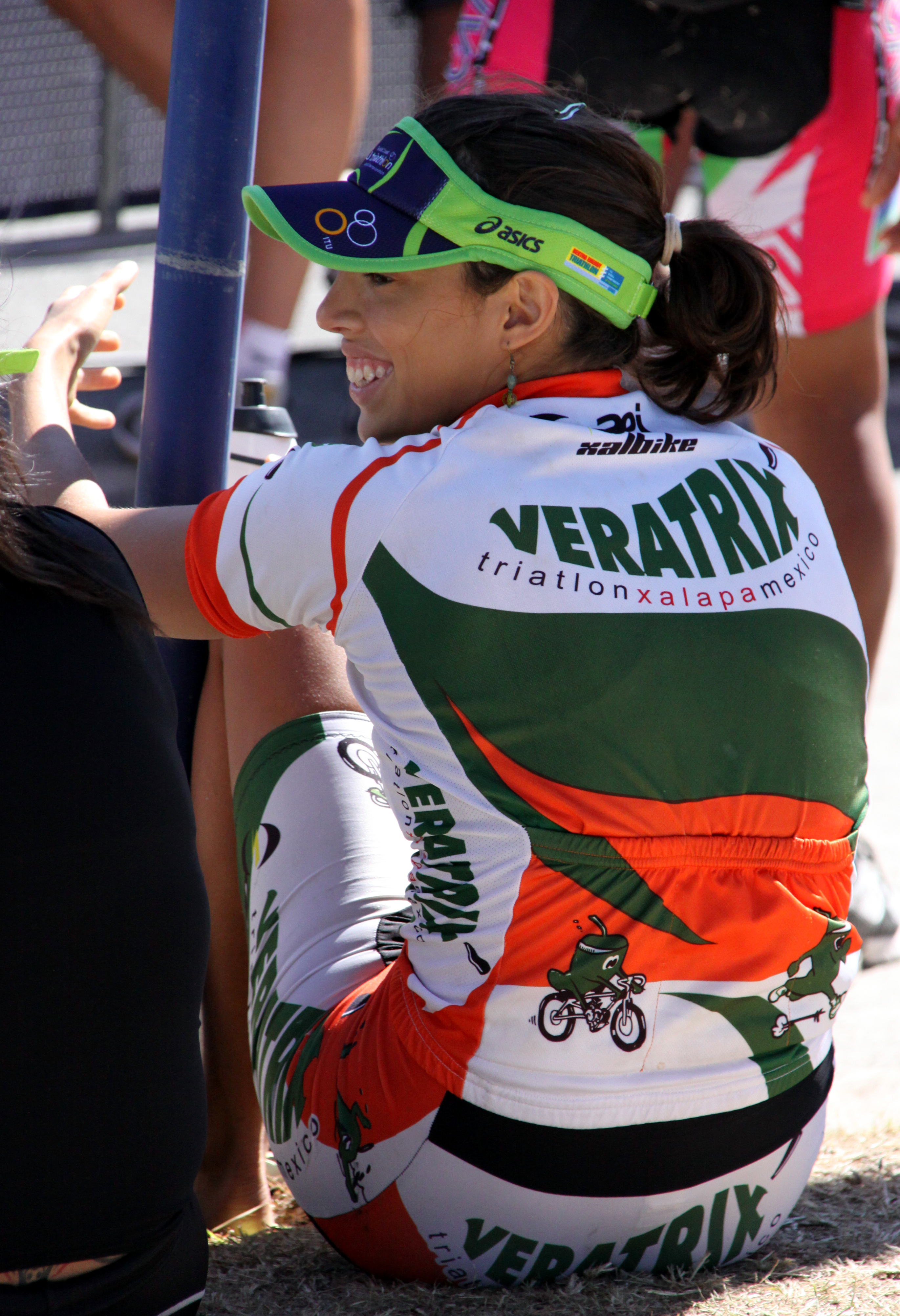 Bárbara Bonola, Triathlon World Championship Series Gold Coast